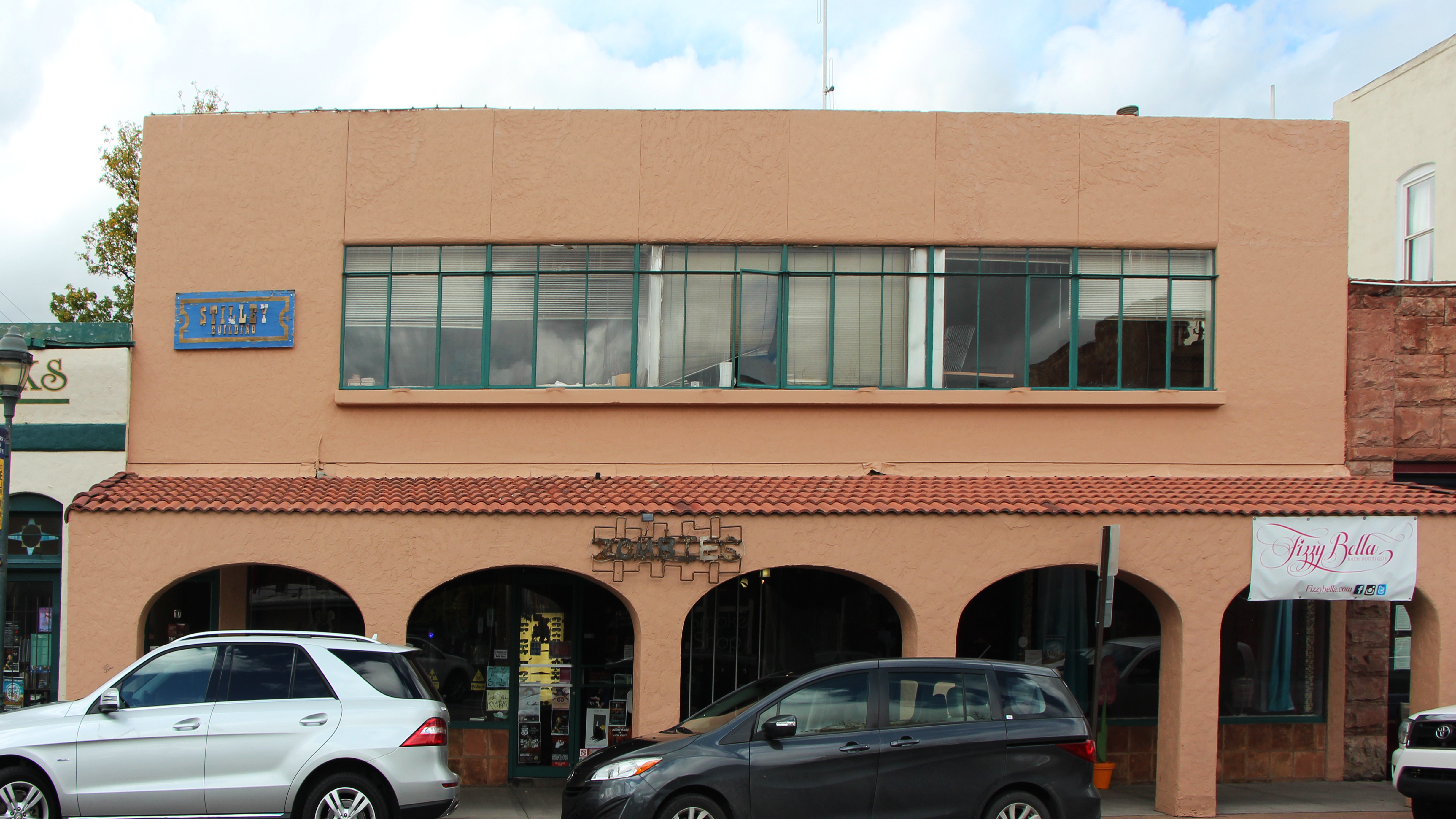 Citizen's Bank Building, 17 N Leroux St, Flagstaff, AZ